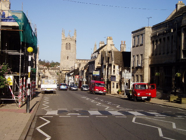 High Street St Martin's, Stamford. Stamford is noted for its coaching inns and its churches. This photo shows an example of each: the Bull & Swan and St Martin's. This street formed part of the Great North Road, which explains the presence of the inns.